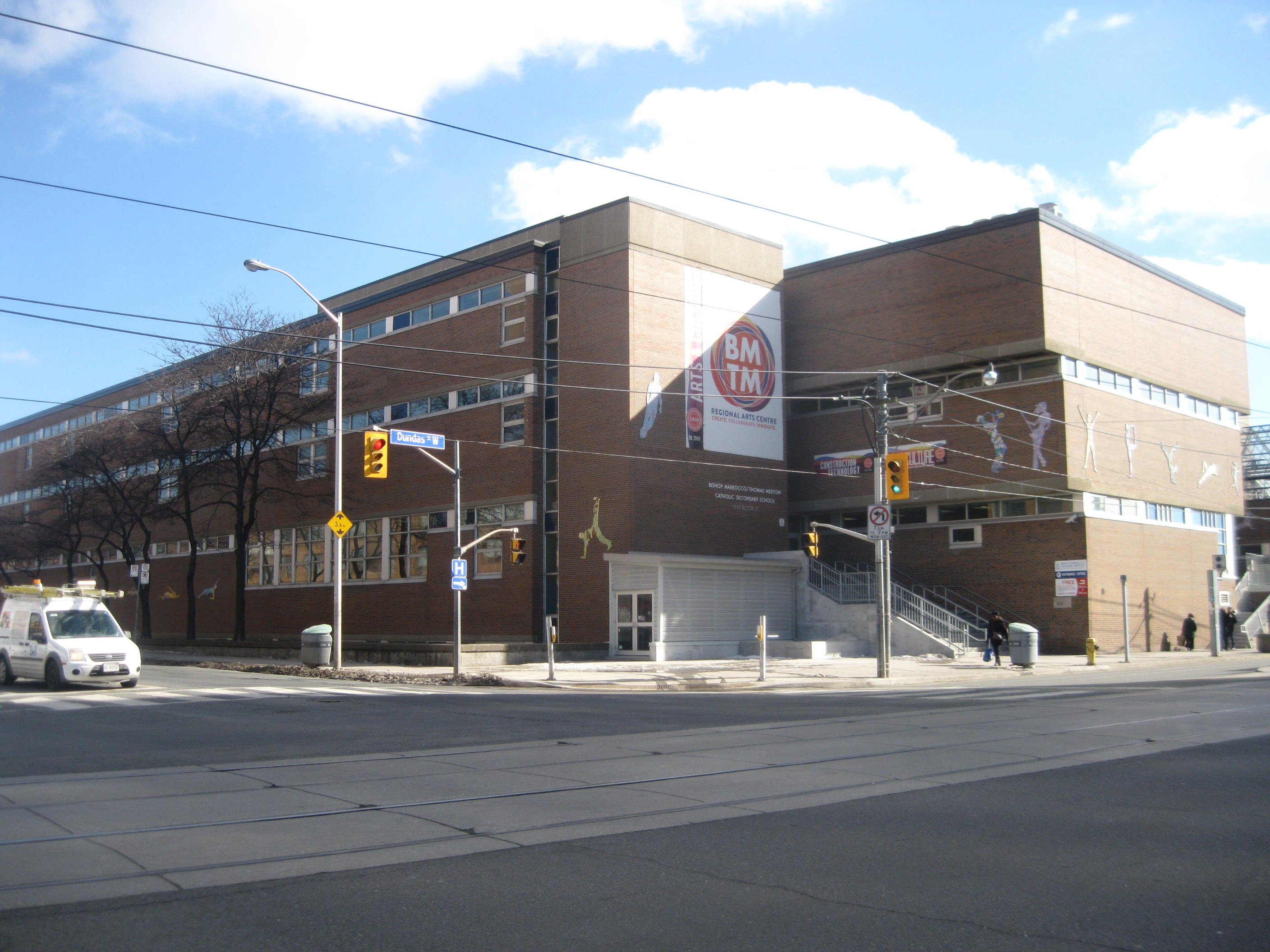 The front facade of West Park Secondary School in the Bloor and Dundas area. It is occupied by the Toronto Catholic District School Board and operates as Bishop Marrocco/Thomas Merton Catholic Secondary School and Regional Arts Centre since 1988.